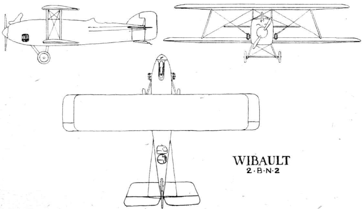 Three view of the Wibault Wib 2 BN.2 night bomber